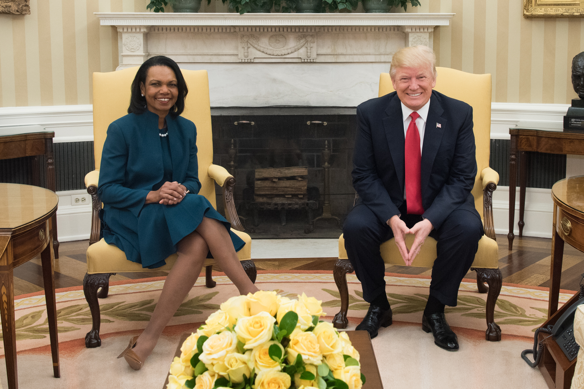 President Donald Trump meets with former Secretary of State Condoleezza Rice in the Oval Office, Friday, March 31, 2017. (Official White House photo by D. Myles Cullen)